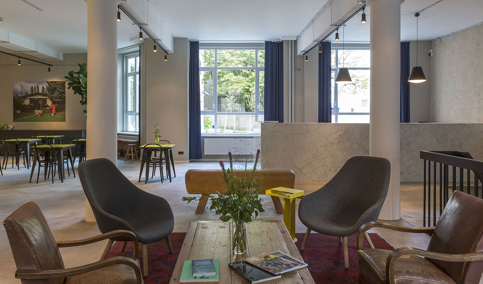 Interior view of Macro Sea's G27 Institute